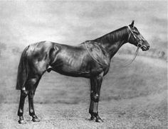 The racehorse Gorgos in harness and bridle, facing right. Horse shown in training so no later than 1904.